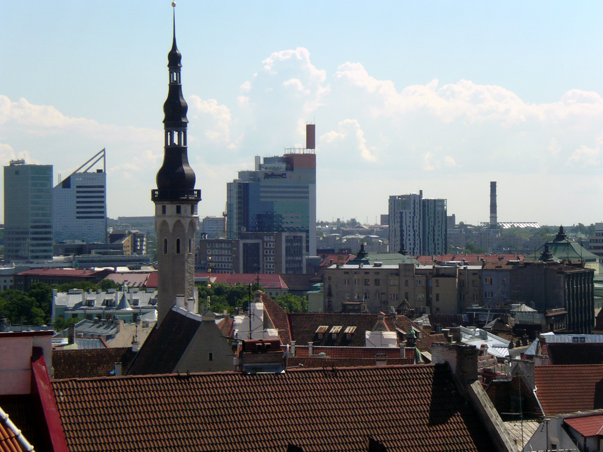 Old and new Tallinn, Estonia.